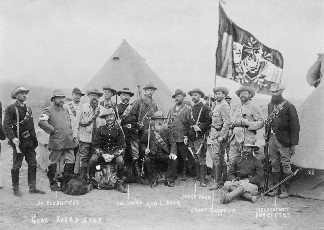 Group portrait of Boer General Kock and his staff before the battle of Elandslaagte on 21 October 1899. Captions from left to right: Dr Elsburger (medical doctor), Col Schiel, Genl Kock (seated, with beard), Judge Kock, Count Zeppelin, Fieldcornet Potgieter. Bottom right: Van Hoepen Pretoria. Bottom left: Genl Kocks staf.